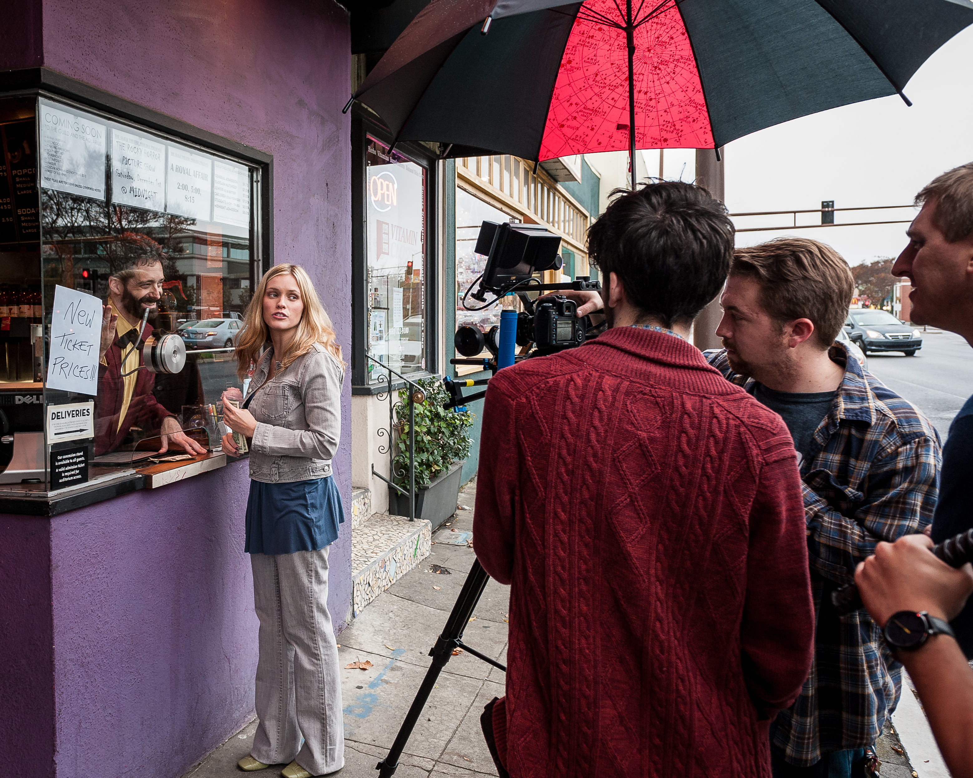 Megan Joy filming on set of Writer's Cramp at the Guild Theater, Menlo Park, CA, on Nov. 29, 2012.